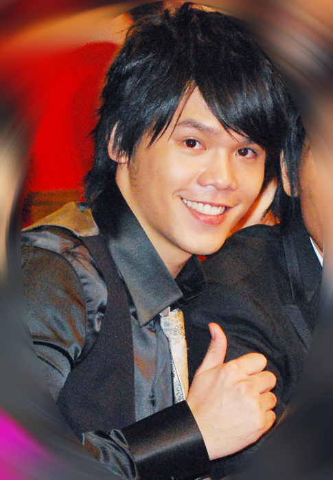 Afalean Lu (Amis name, Chinese 盧學叡 Lu Xuerui)